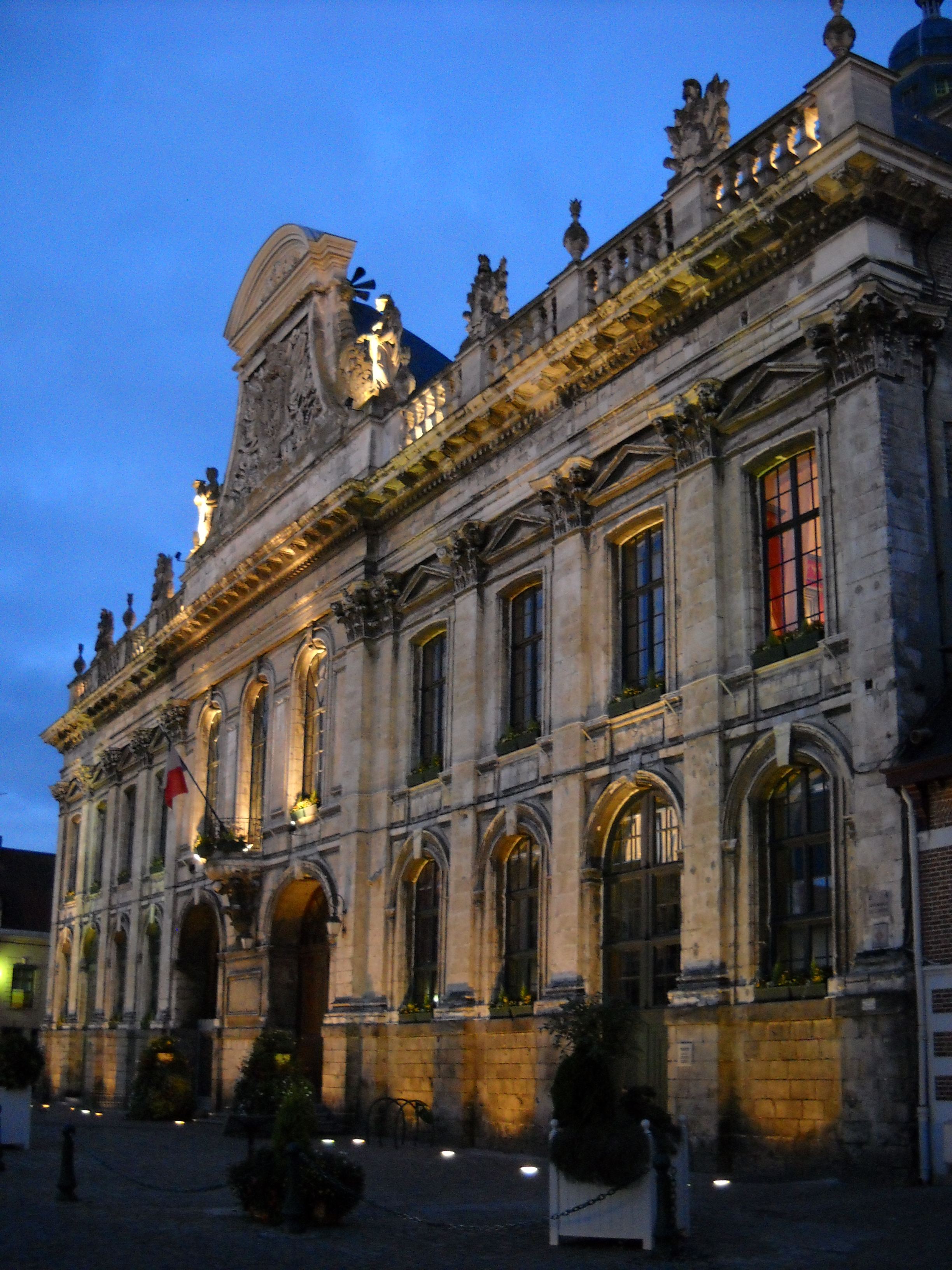 The Town Hall of Aire-sur-la-Lys, Pas-de-Calais, France.